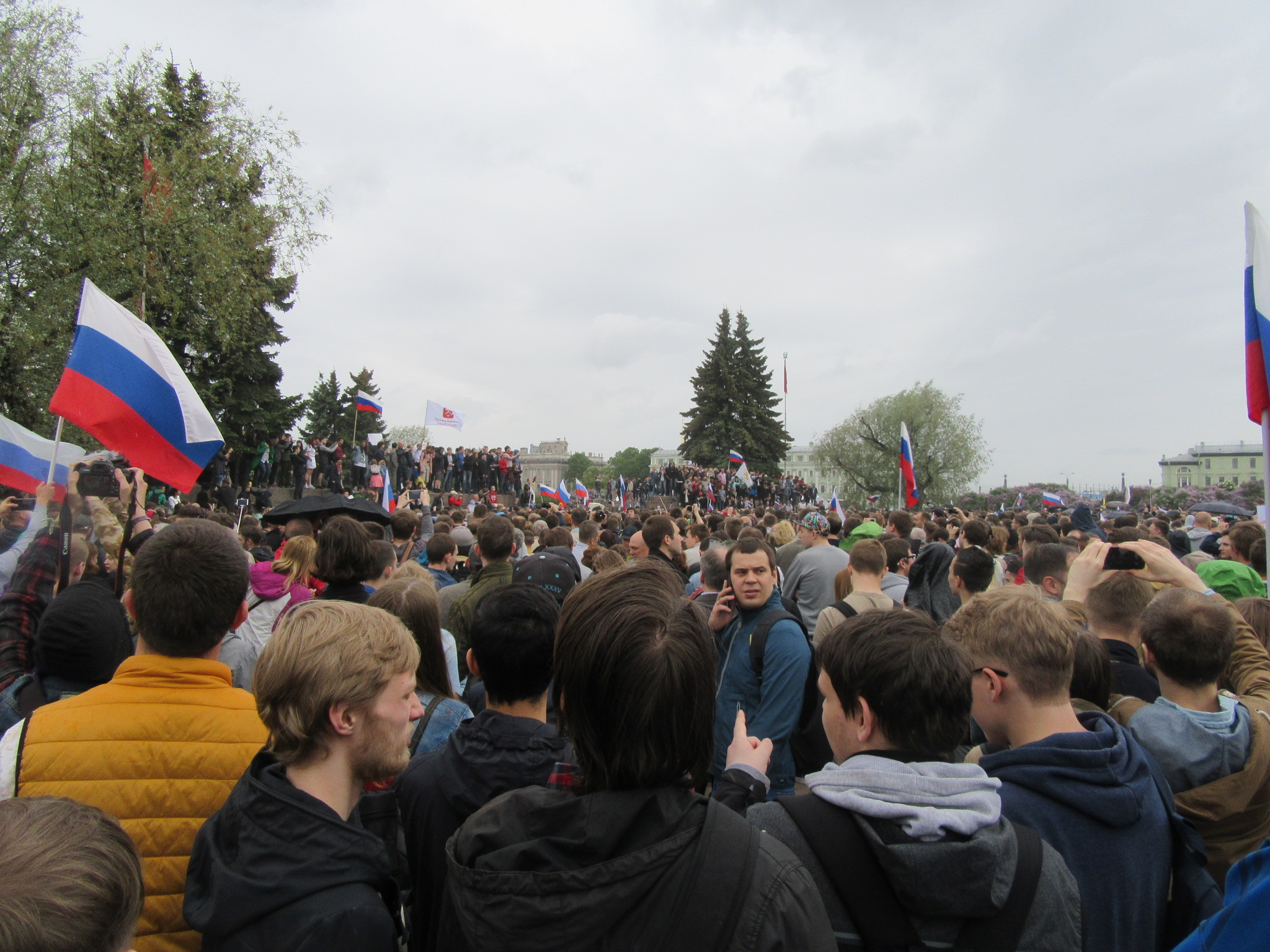 2017-06-12 Anti-corruption rally in St. Petersburg, Russia. Campus Martii. Protesters regain the monument.